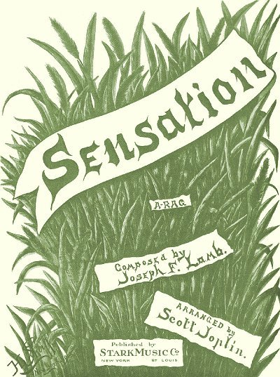 Cover of the sheet music for Joseph Lamb's 1908 "Sensation Rag"